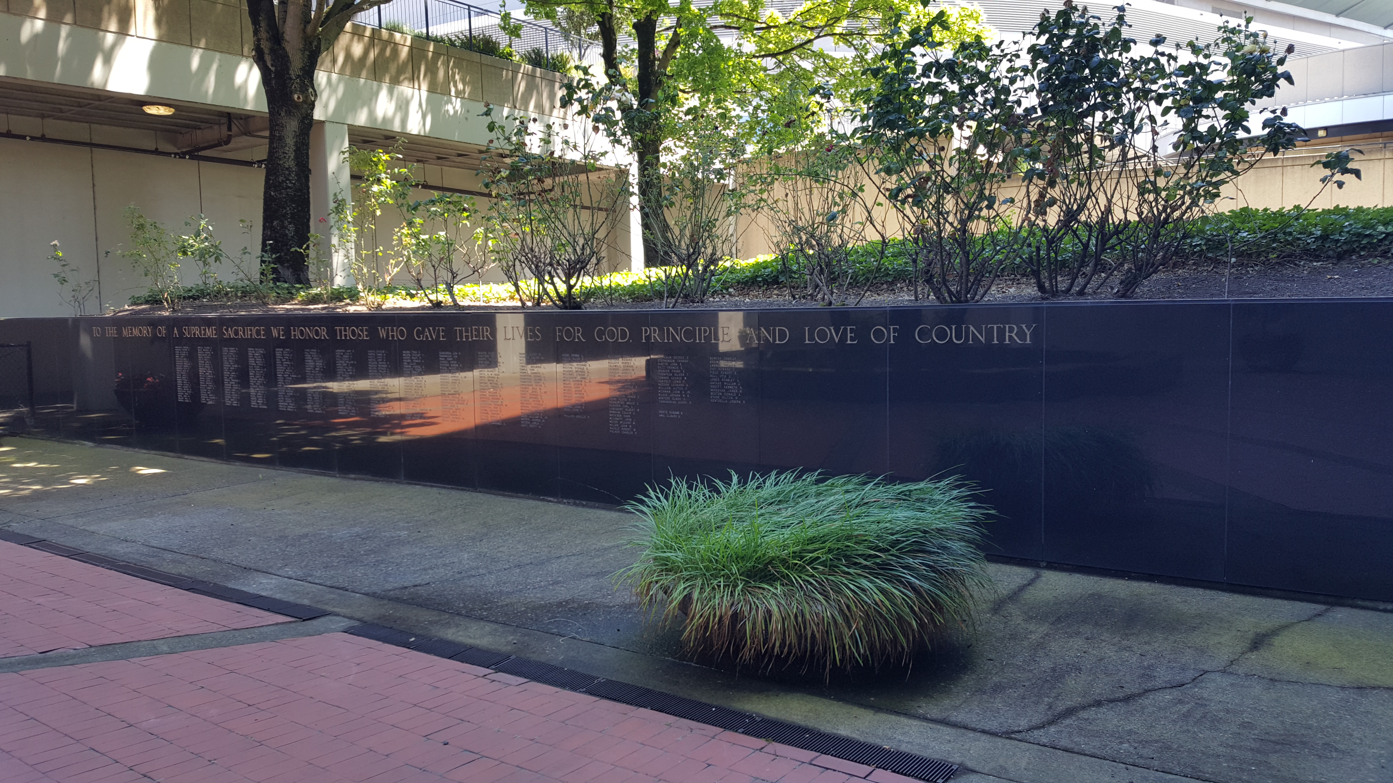 Portland, Oregon, July 25, 2020